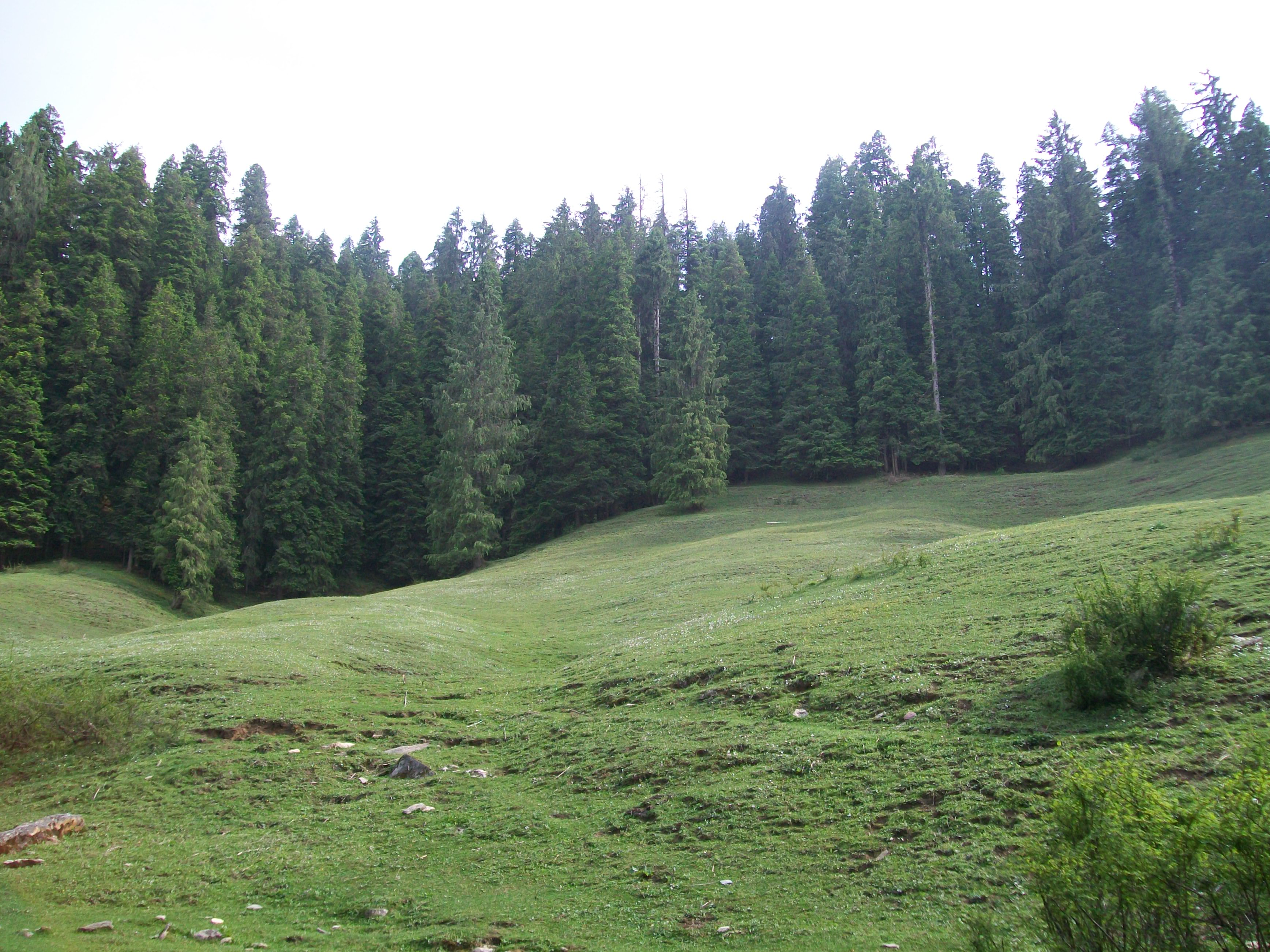 giriganga kharapather